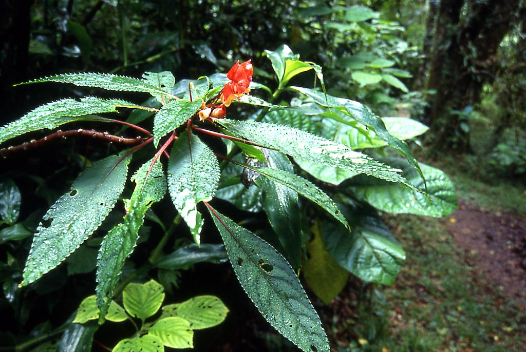 Rainforest in Amber Mountain National Park, Madagascar.